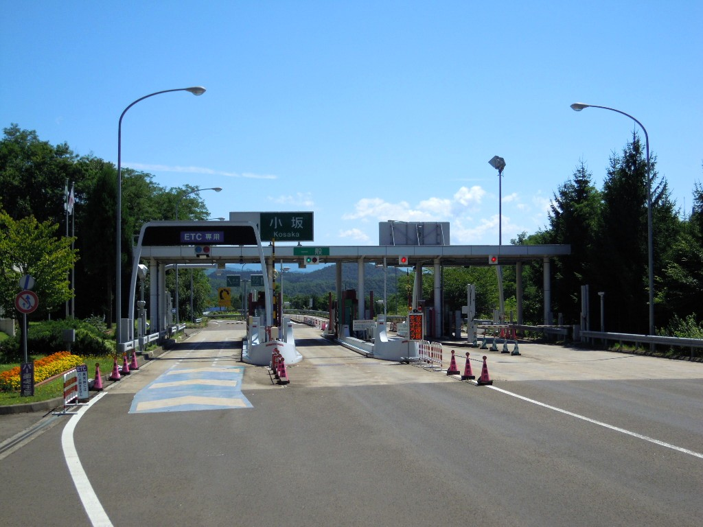 This Interchange, Kosaka Interchange, is on Tohoku Expressway, in Kosaka Town, Akita Prefecture, Japan.